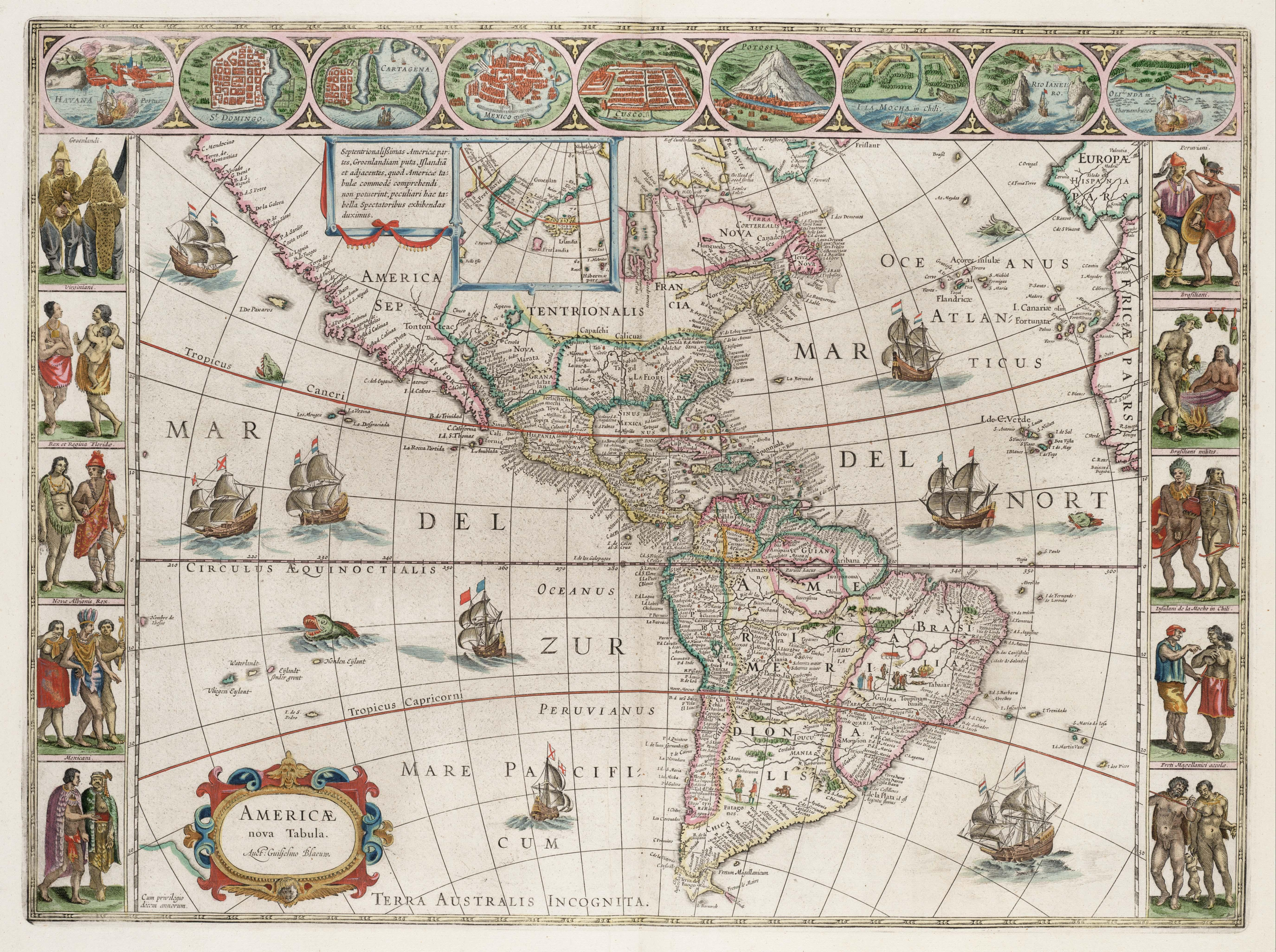 Map of the Americas by Willem Blaeu